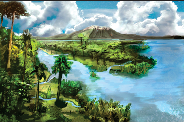 Paleoenvironment Lefipán Formation 1 - Maastrichtian